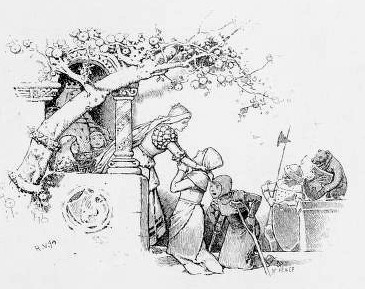 illustration of the Brothers Grimm fairy tale "One-Eye, Two-Eyes, and Three-Eyes"